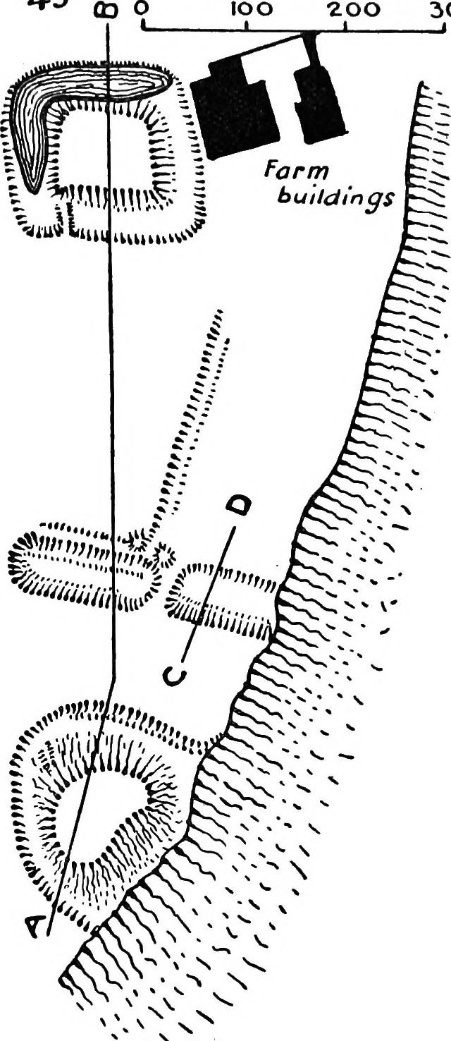 Image from page 580 of "The Victoria history of the county of Lancaster;" (1906) (20794414815)